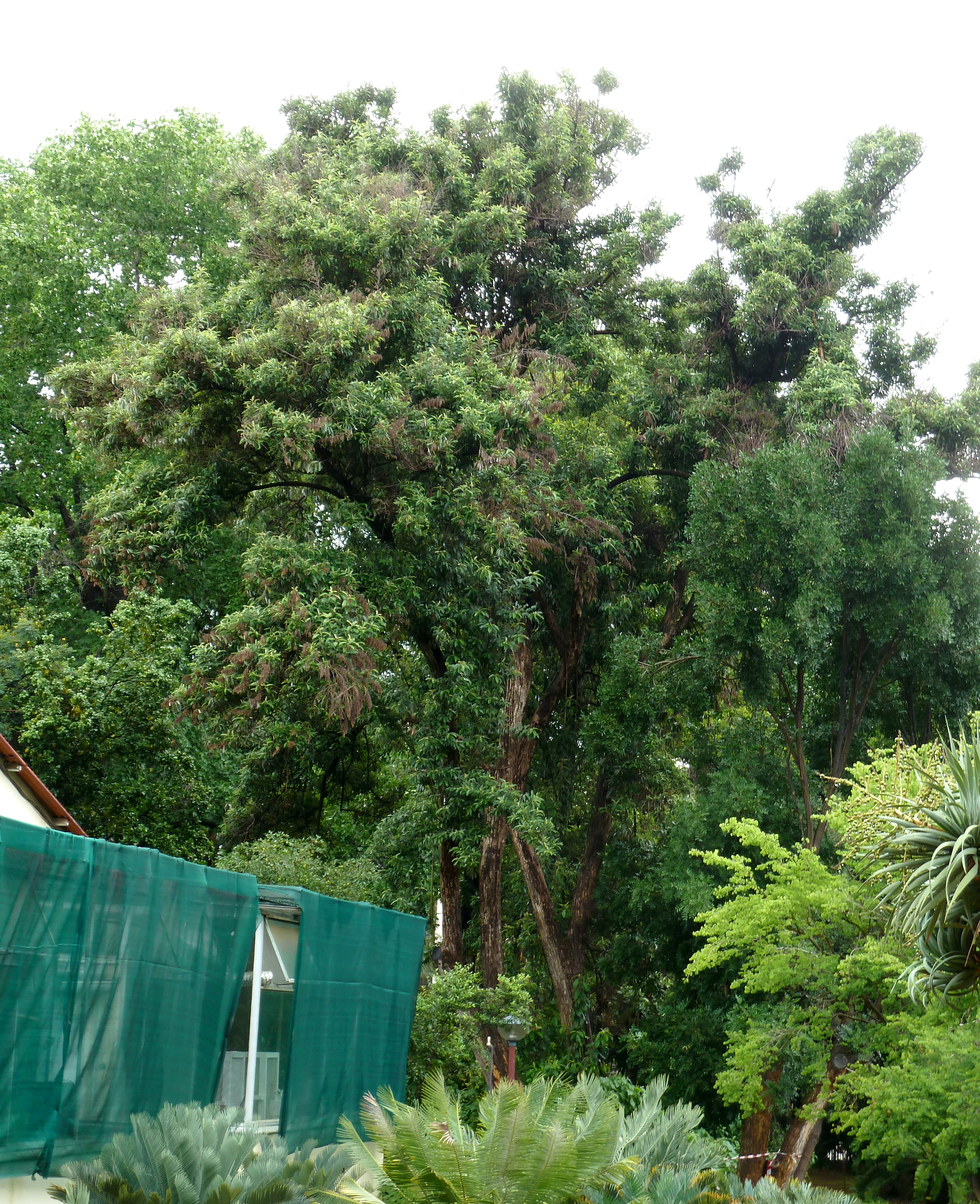 Forest silver-oak in the Manie van der Schijff Botanical Garden in Pretoria